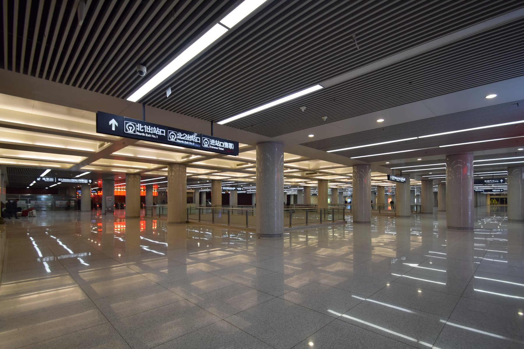 Underground Transfer Concourse at B1/F, Tianjin Railway Station